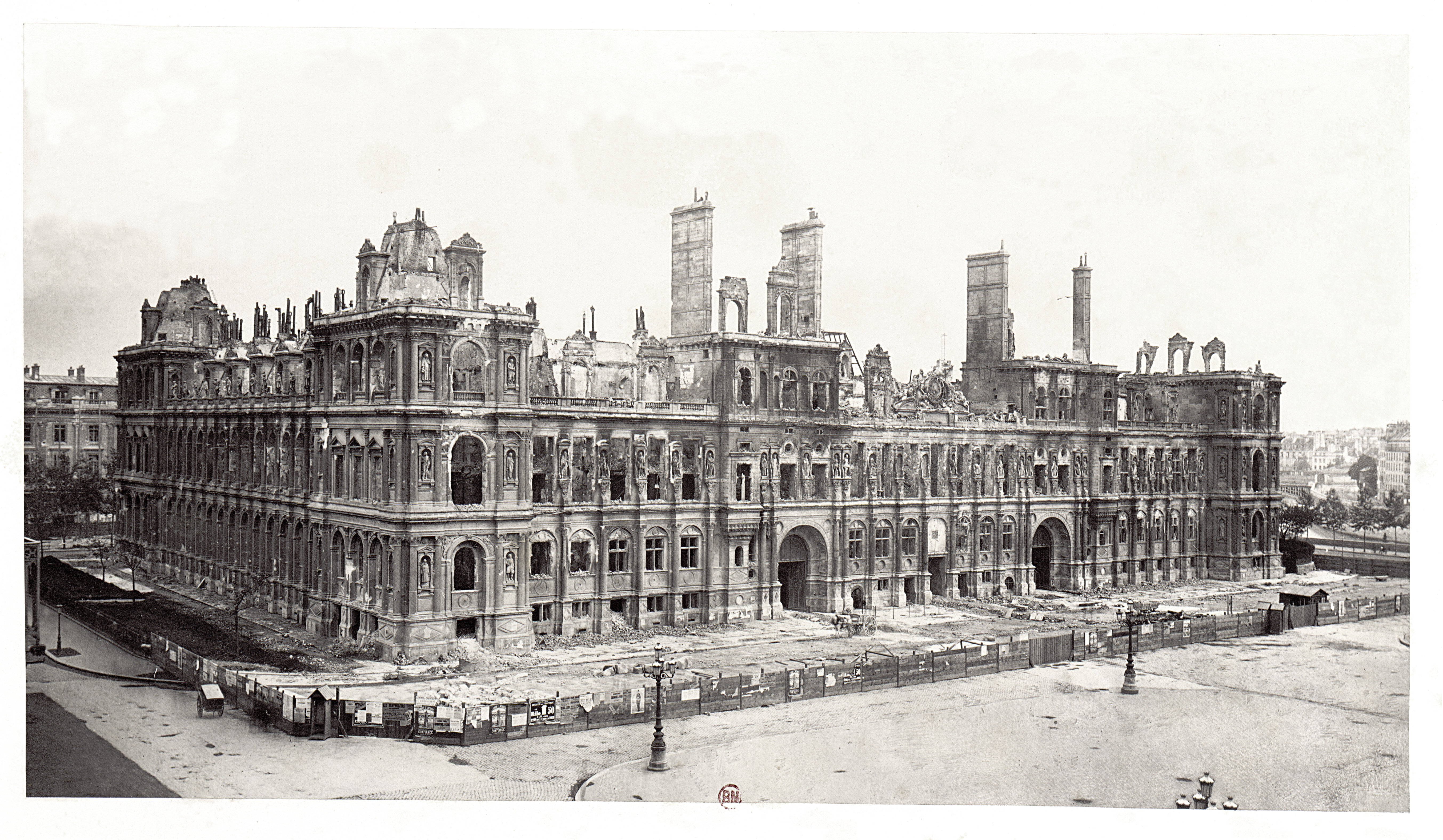 The Paris Town Hall, after the great fire of the Commune in 1871.